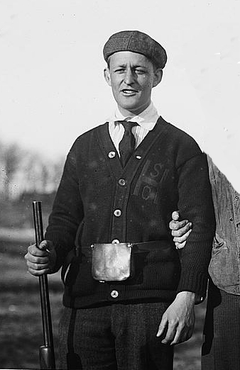 B. M. Higginson, Jr. in 1912 at the national championships on Travers Island. [between ca. 1910 and ca. 1915] 1 negative : glass ; 5 x 7 in. or smaller. Notes: Title from unverified data provided by the Bain News Service on the negatives or caption cards. Forms part of: George Grantham Bain Collection (Library of Congress). Format: Glass negatives. Repository: Library of Congress, Prints and Photographs Division, Washington, D.C. 20540 USA, General information about the Bain Collection is available at Persistent URL: Call Number: LC-B2- 2390-12